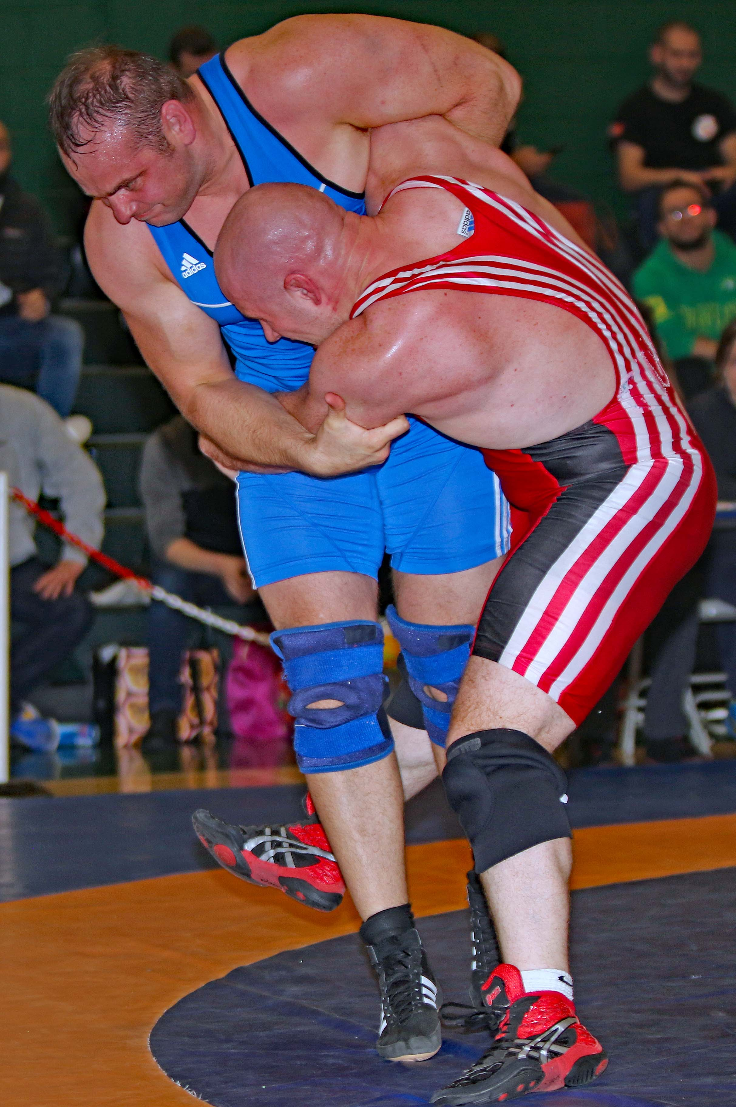 Wrestlers